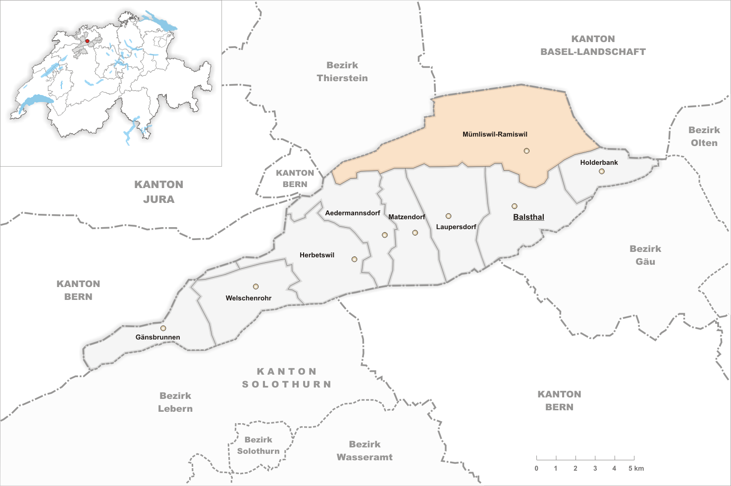 Municipality Mümliswil-Ramiswil